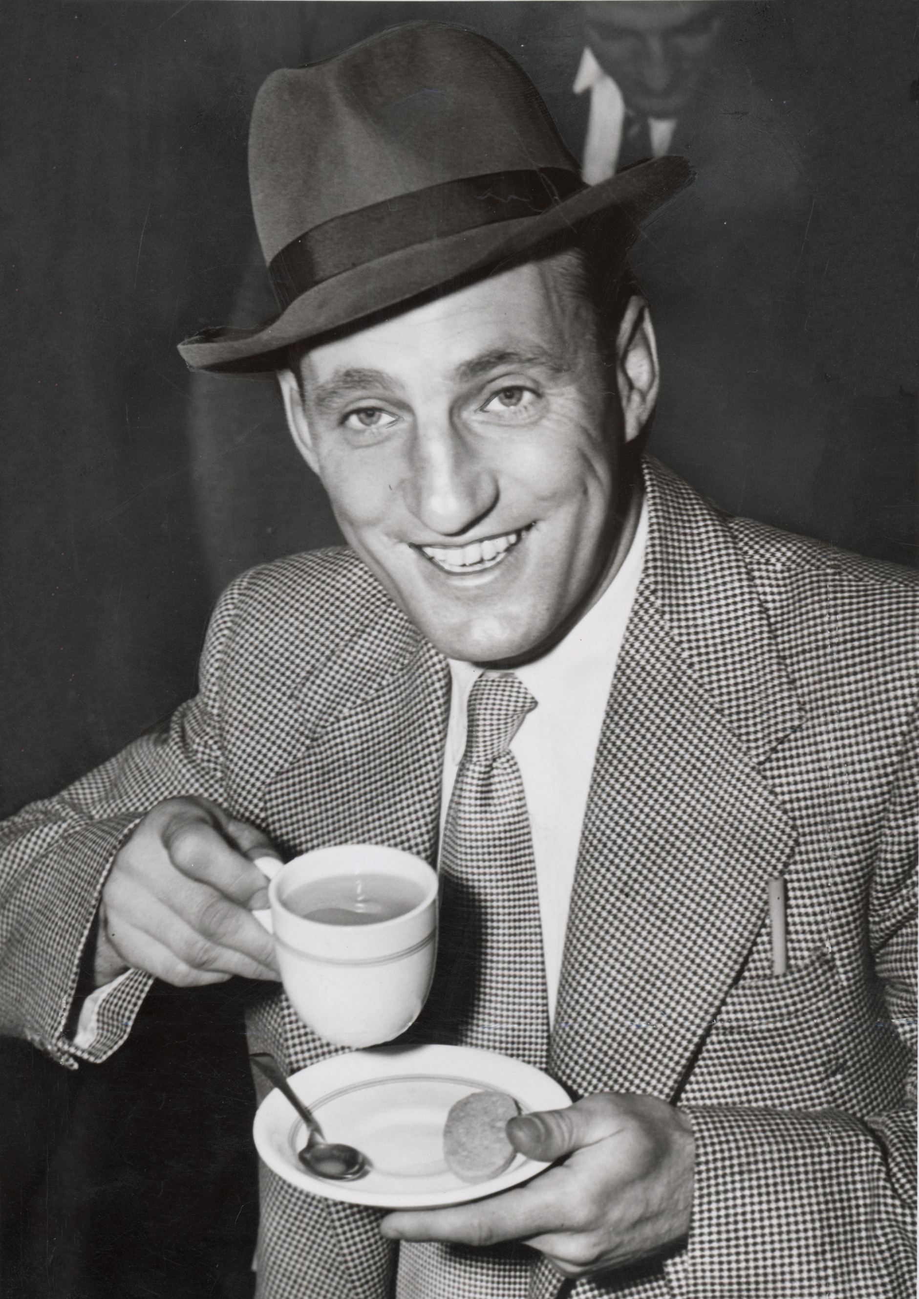 Len Hutton, Eng. [i.e. English] cricketer, spent the time at Essendon having a good old cup of tea as the plane was delayed 45 minutes [picture]